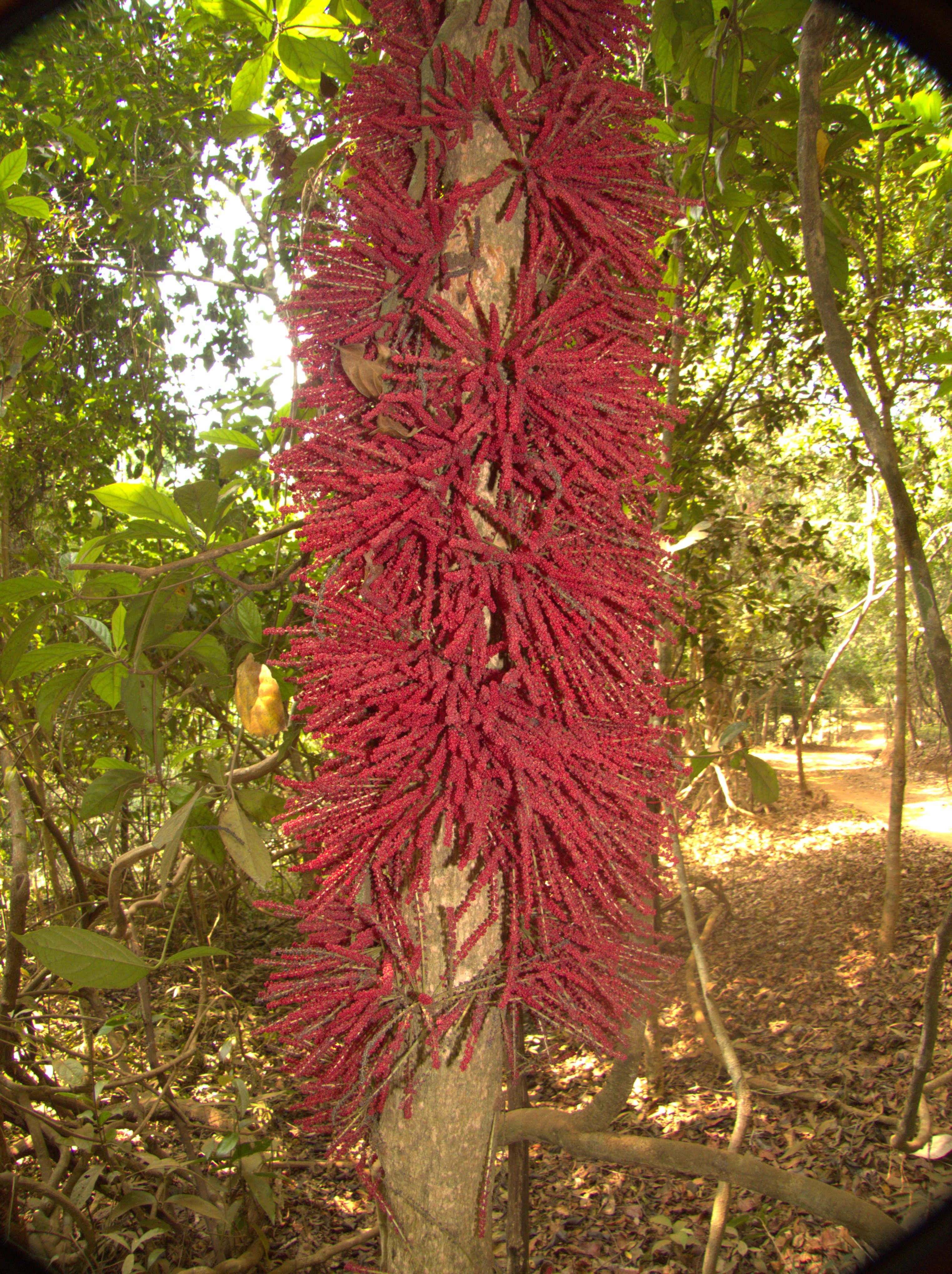 Baccaurea courtallensis